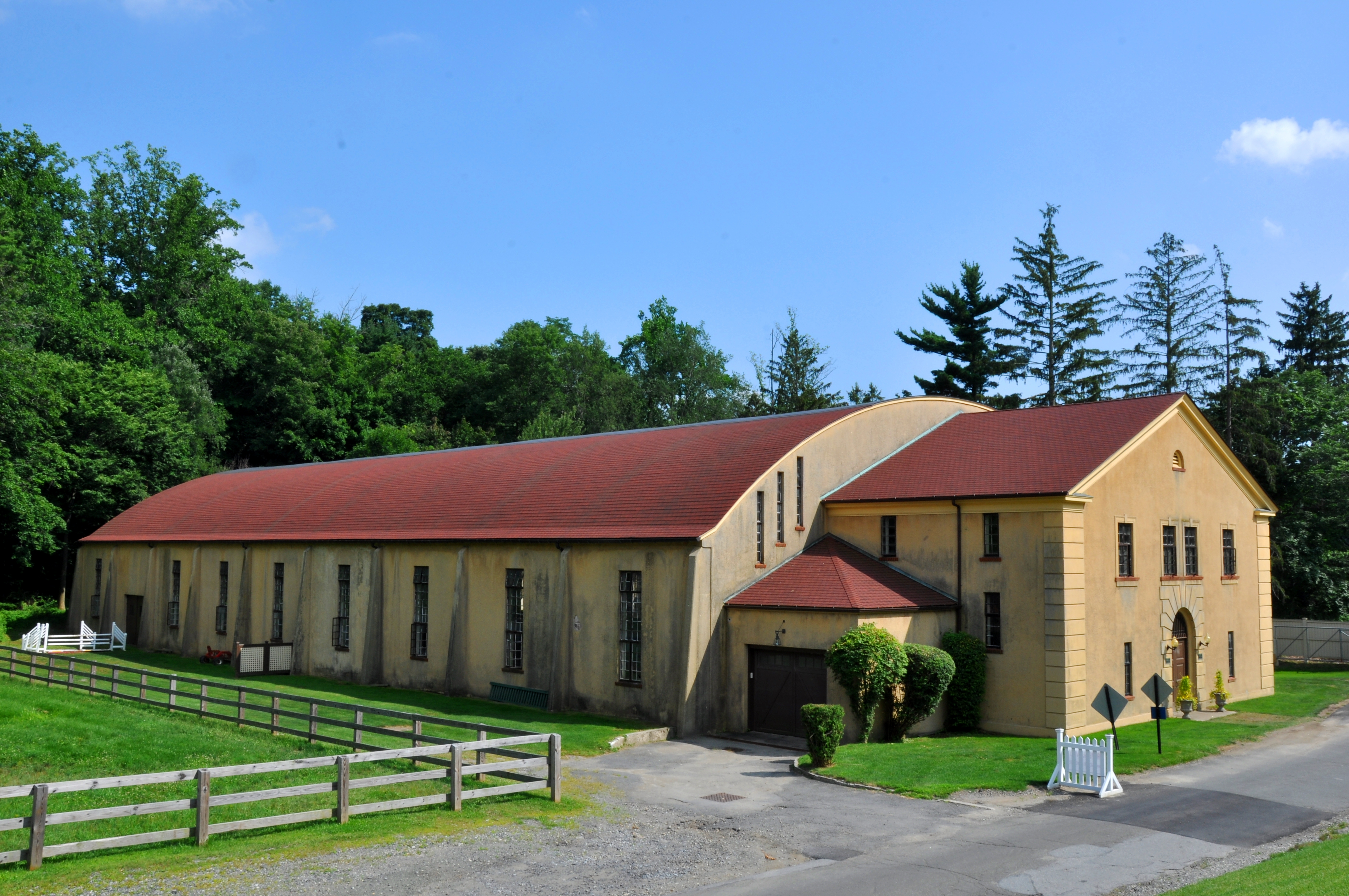 Sleepy Hollow Country Club; taken July 27, 2014.